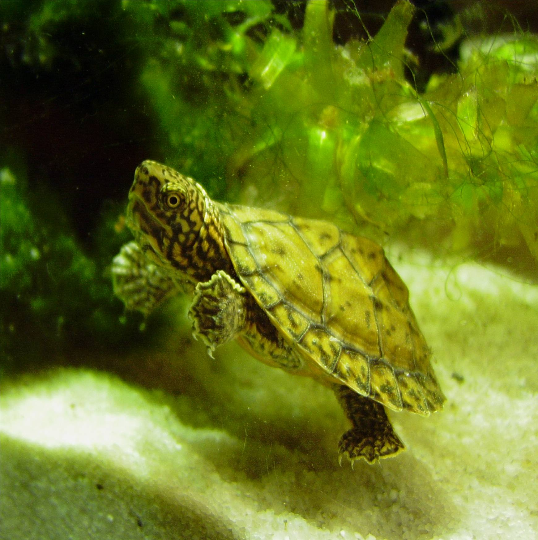 Sternotherus minor peltifer hatchling